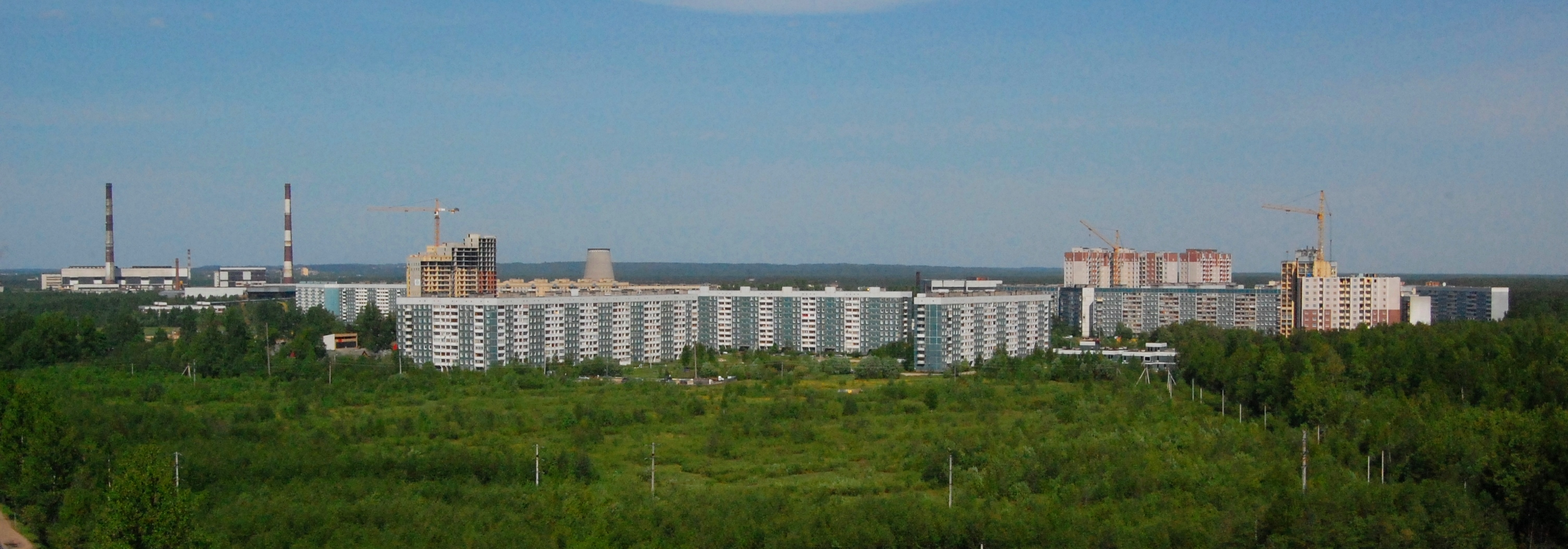 Novoye Devyatkino (Leningrad Region) viewed from Medvezhy Stan Settlment